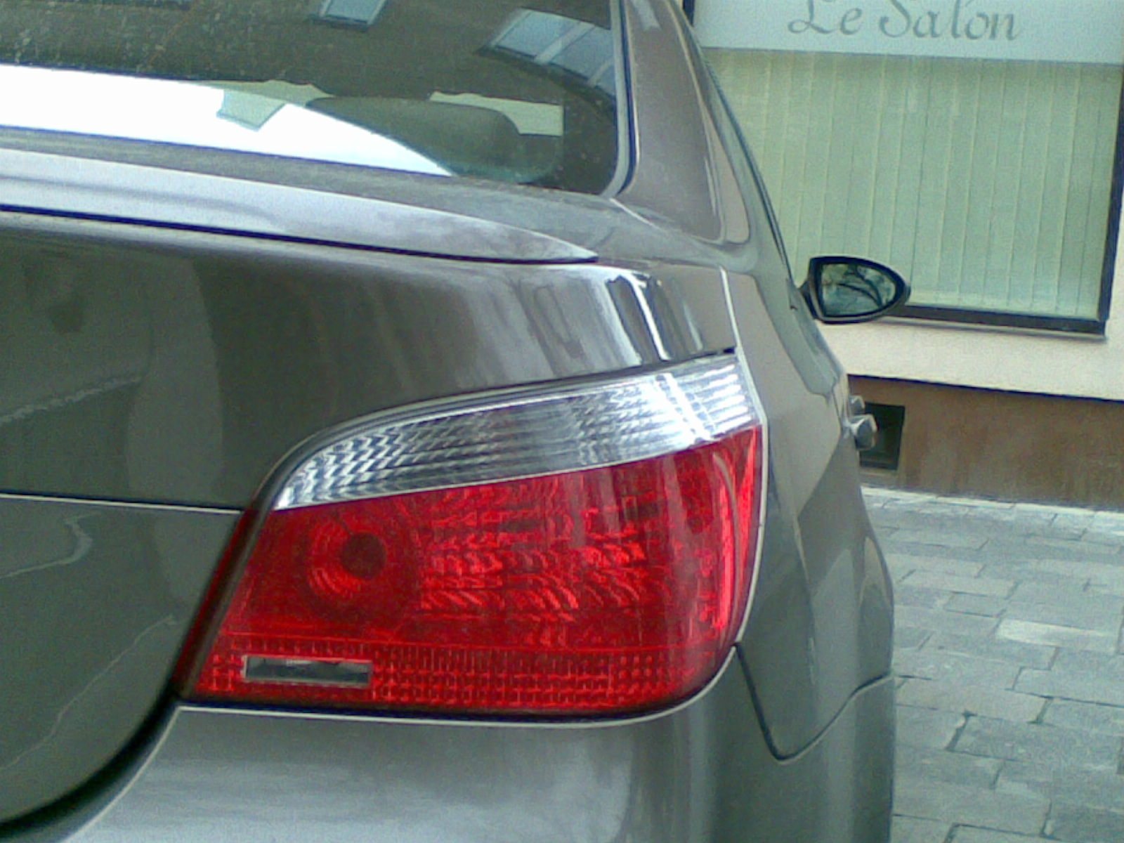 Photo taken by mobile phone Nokia E51.